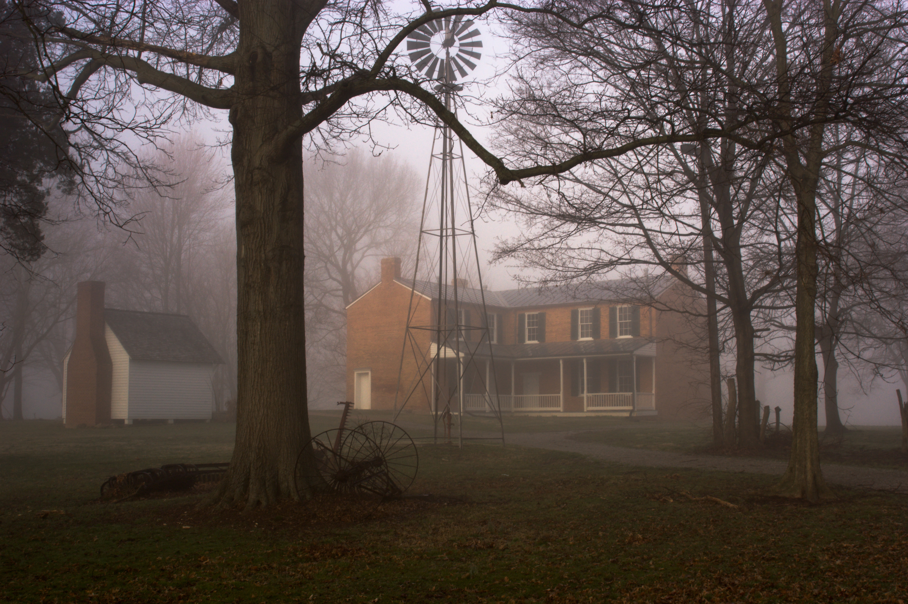 The Farnsley-Moorman House on a foggy morning. This is a view from the back. The small building is the kitchen.